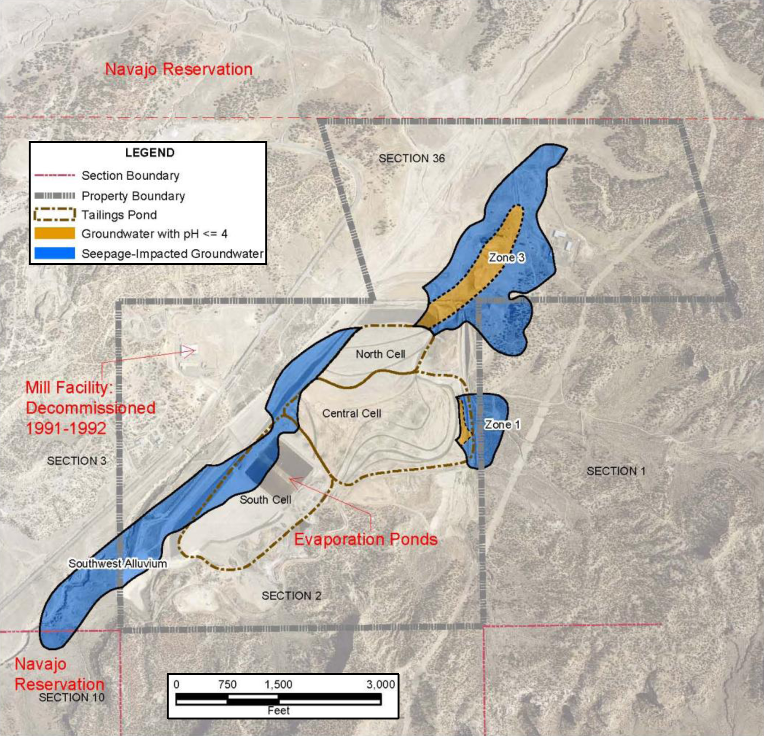 "Extent of Seepage-Impacted Groundwater, October, 2009" at the UNC Church Rock uranium mill in Church Rock, New Mexico.